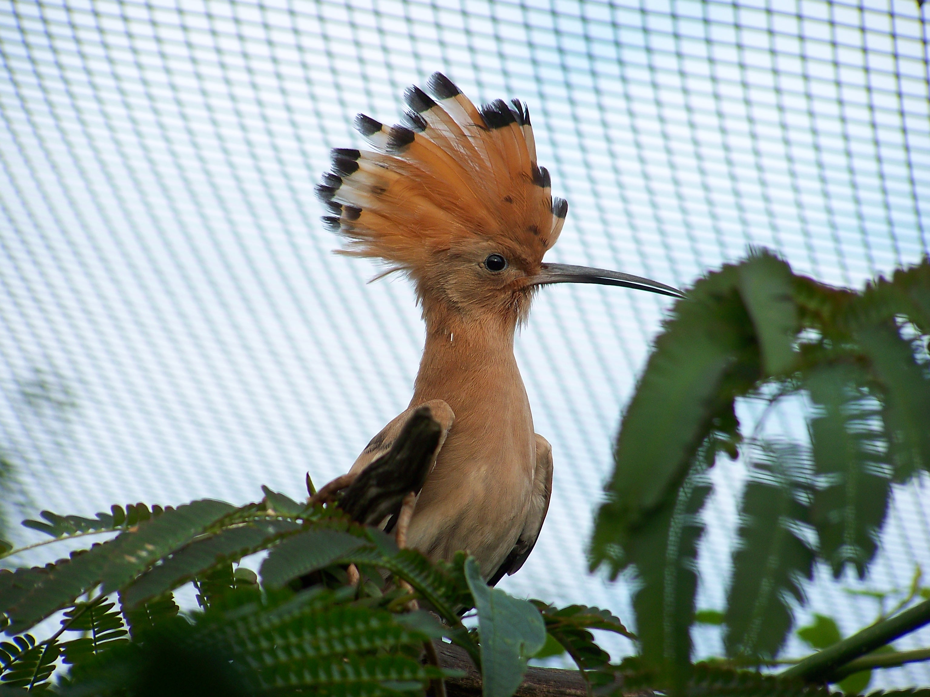 Hoopoe - Upupa epops